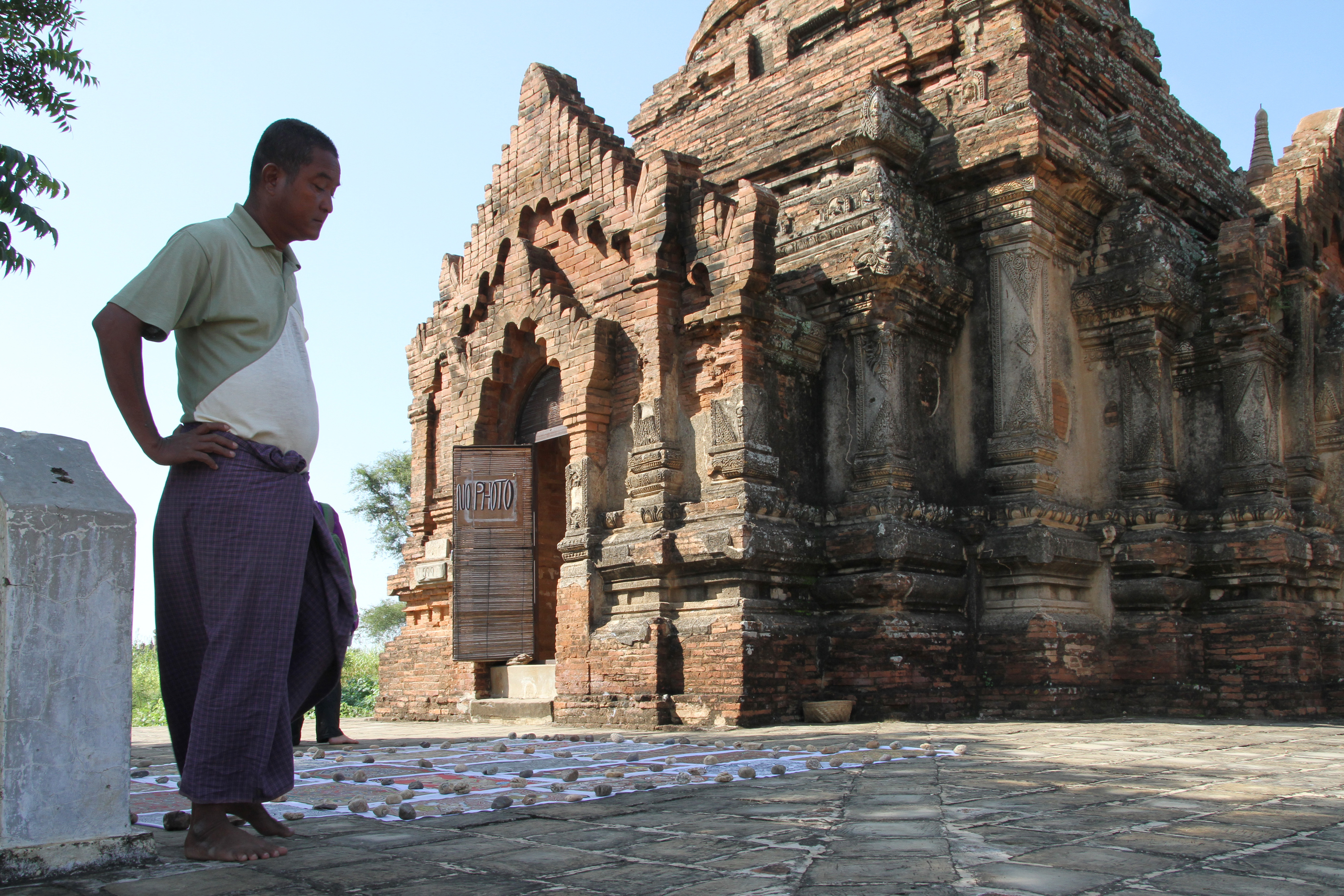 Nandamannya temple in Bagan in Myanmar.